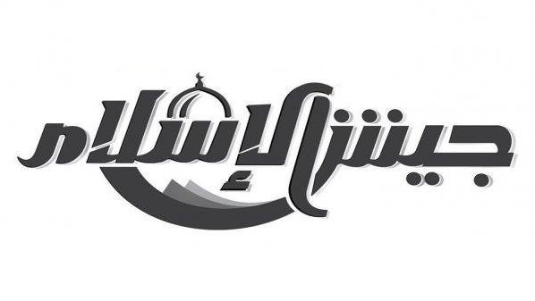 The logo of Jaysh al-Islam, a Salafist rebel group in Syria.